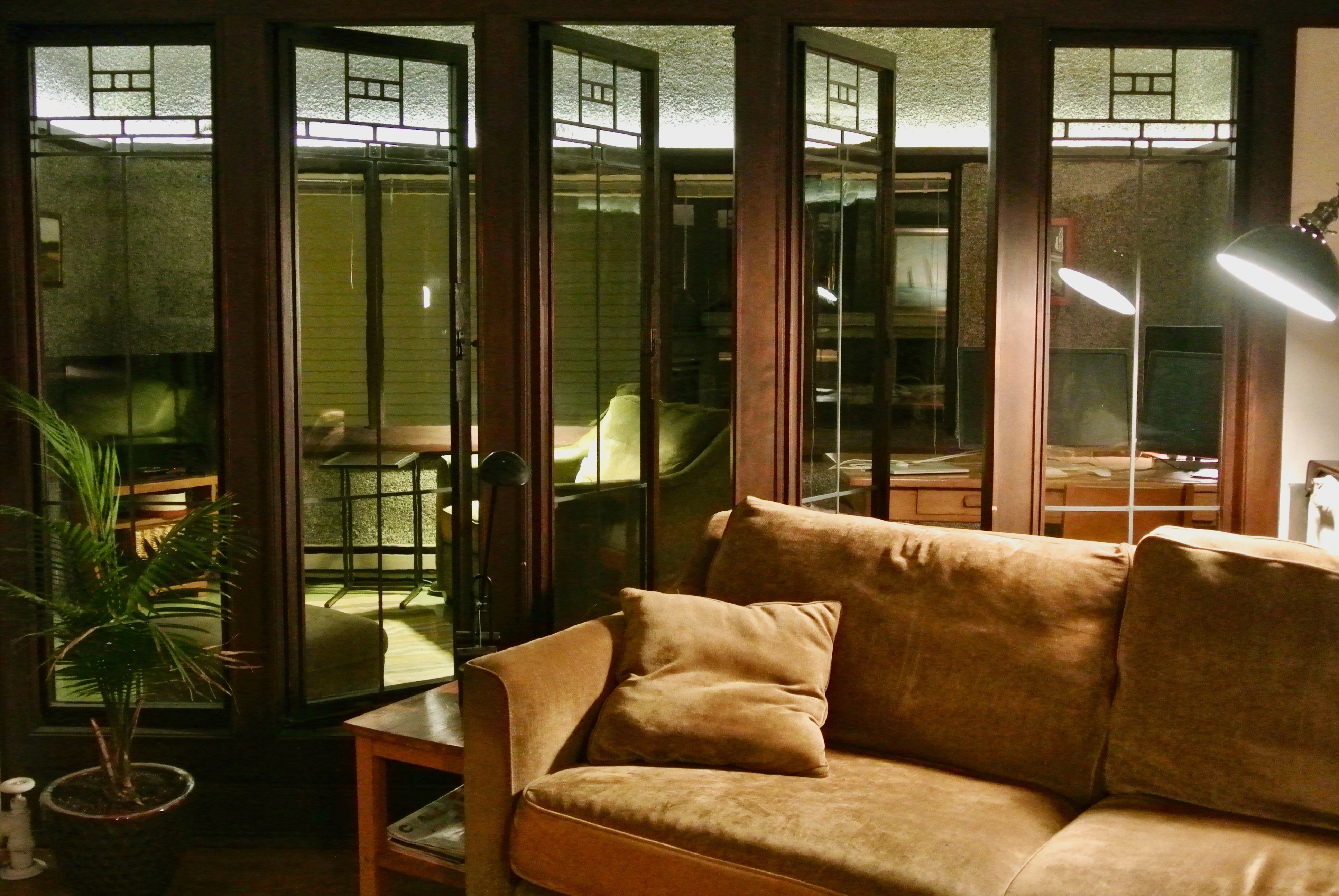 Art glass windows separate the living room and sleeping porch in the Elizabeth Murphy House